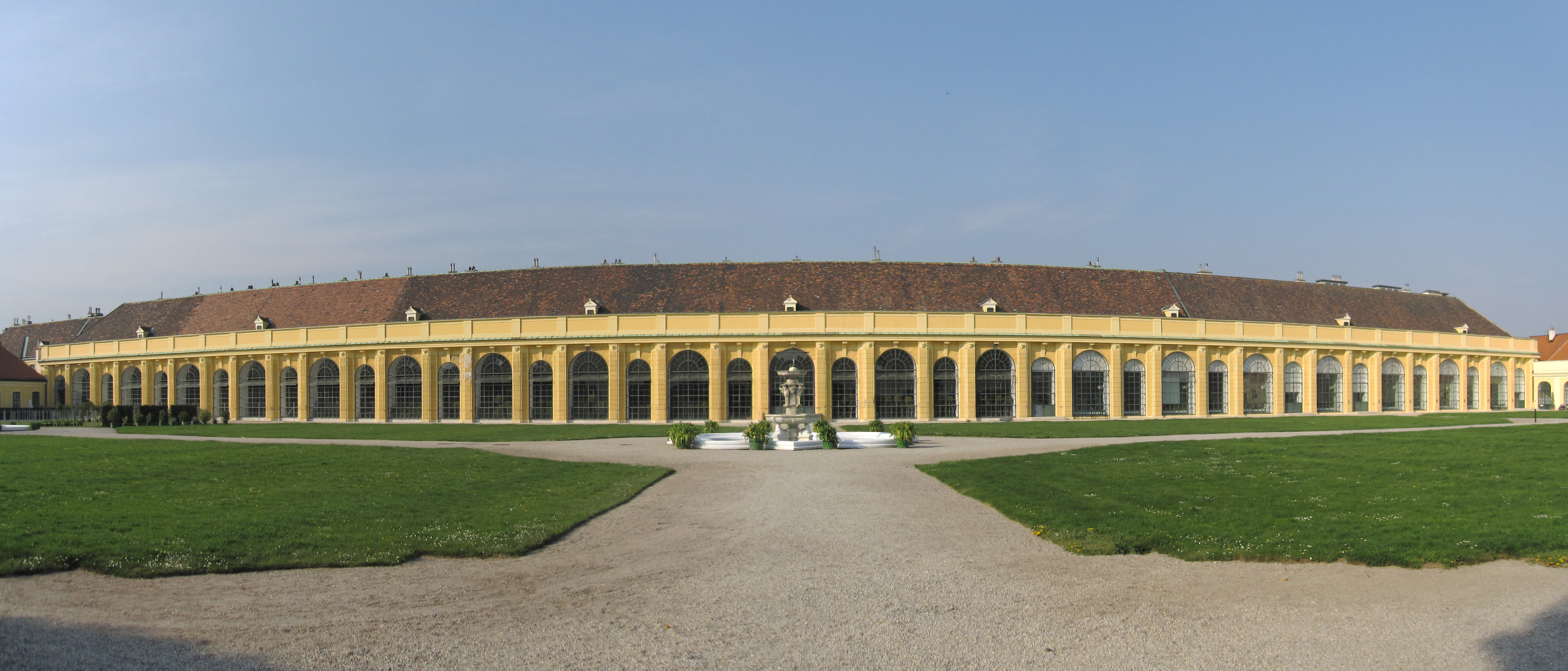 Orangery of Schönbrunn Palace in Vienna.